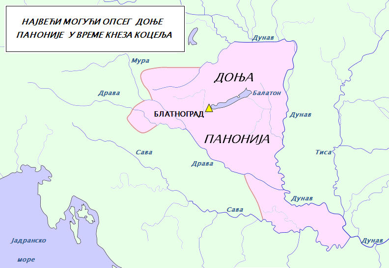 Lower Pannonia during the reign of Kocelj (9th century); For approximate borders look at Inzko Valentin (1978): Zgodovina Slovencev do leta 1918. Mohorjeva založba, Celovec, page: 34; Čepič Zdenko et al. (1979): Zgodovina Slovencev. Cankarjeva založba, Ljubljana 1979, page: 127, 133; Peršič Janez et al. (1983): Stare kulture. Mladinska knjiga, Ljubljana, page: 144; for SE borders look in: Grafenauer Bogo (1954): Zgodovina slovenskega naroda. I. zvezek. Page 49; [1]; [2].